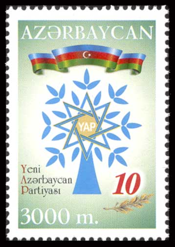 Stamp of Azerbaijan